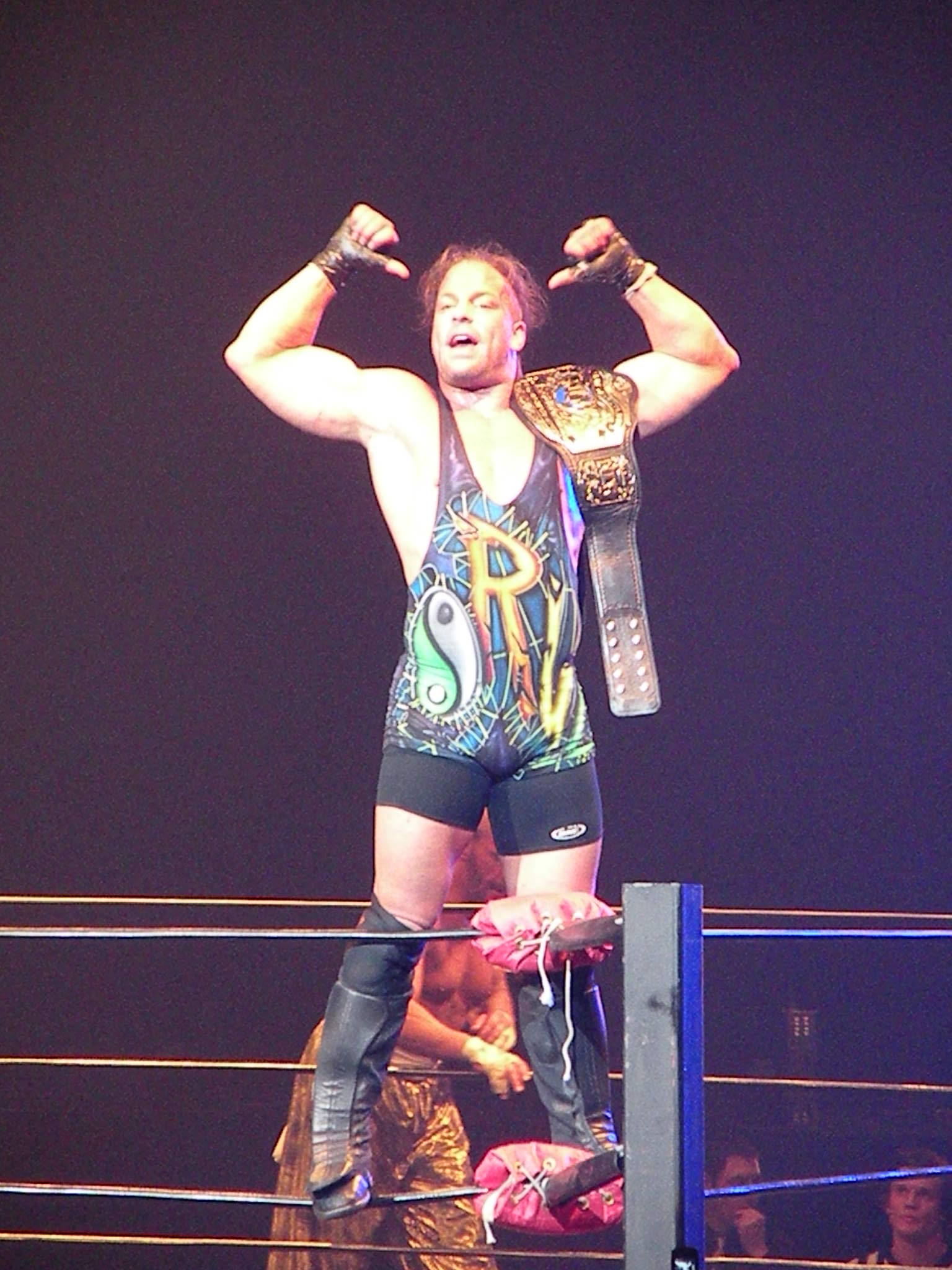 rob van dam au american wrestling rampage 2009